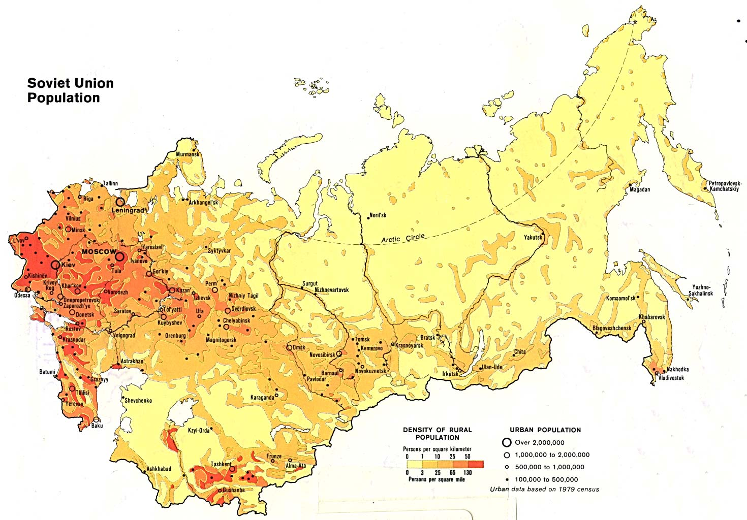 Soviet Union population density map 1982.(based on USSR 1979 census data)